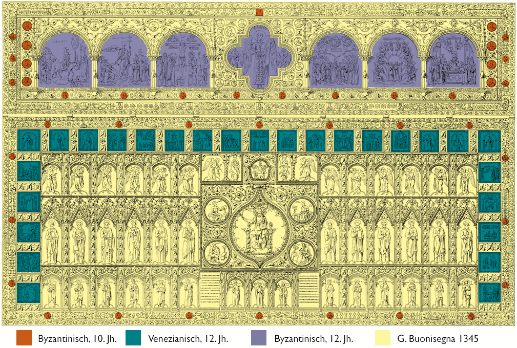 The so-called Pala d’Oro, the golden back side of the main altar of the Basilica di San Marco in Venezia, Italy. This image shows the development of the arrangement from single elements. German description.